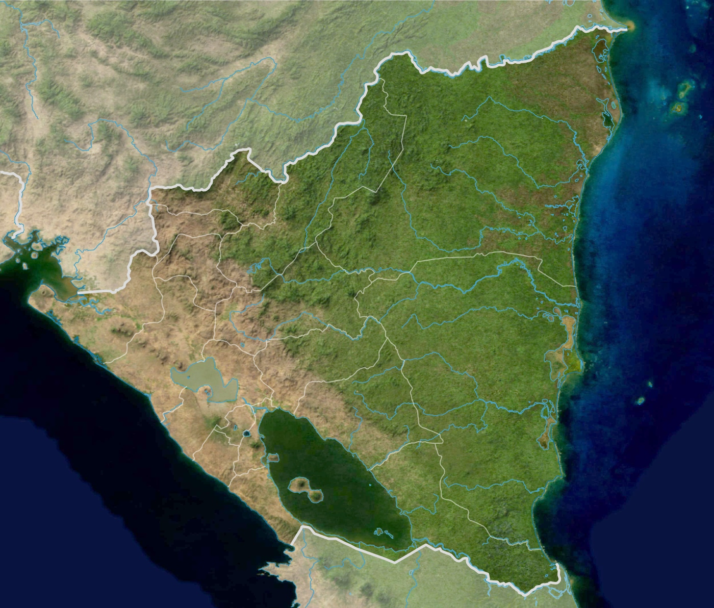 Bluemarble Location map Nicaragua with Departamentos, Equirectangular projection, N/S stretching 100 %. Geographic limits of the map: N: 15.2° N S: 10.6° N W: -87.9° E E: -82.5° E